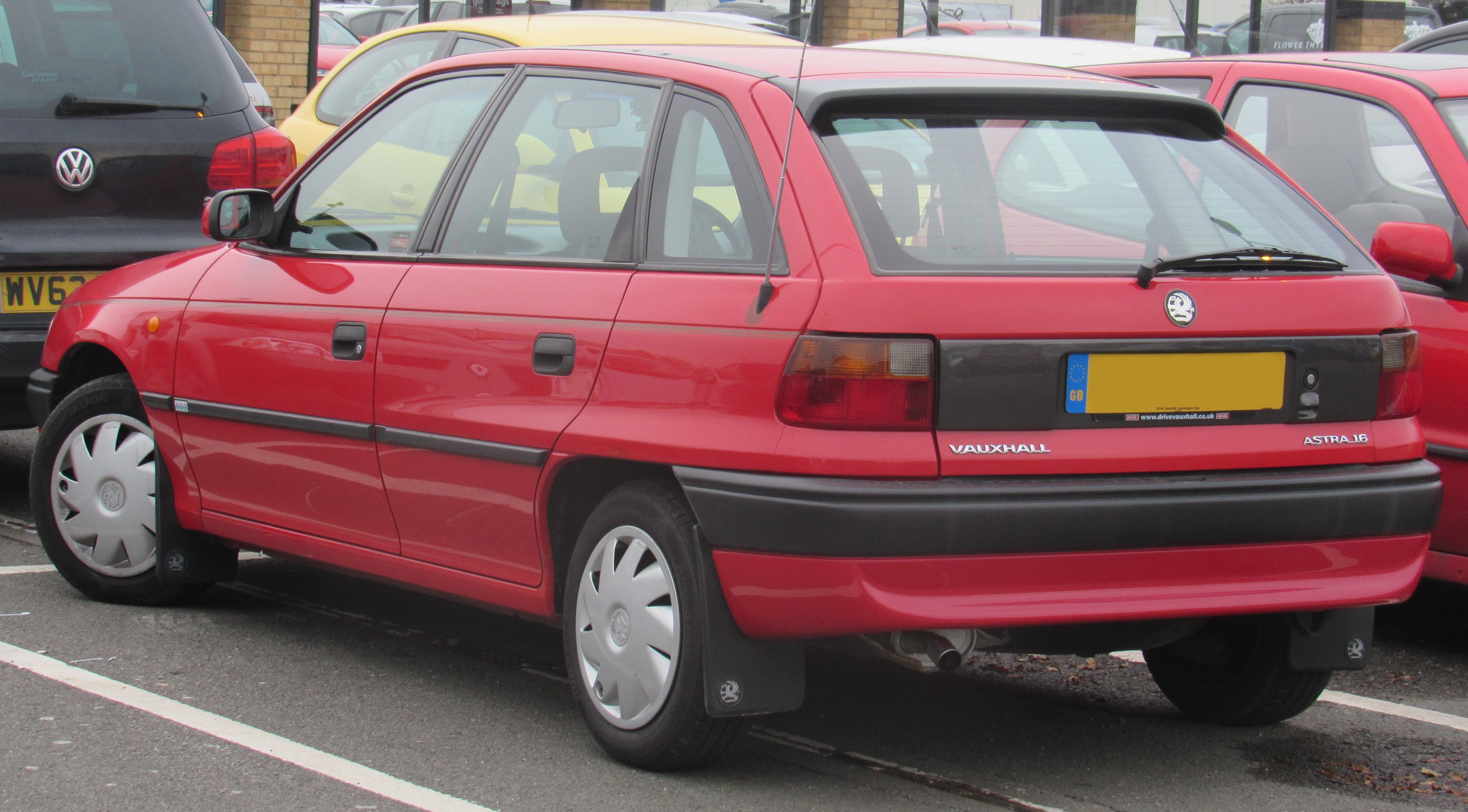 1996 Vauxhall Astra Premier 1.6 Rear Taken in Leamington Spa